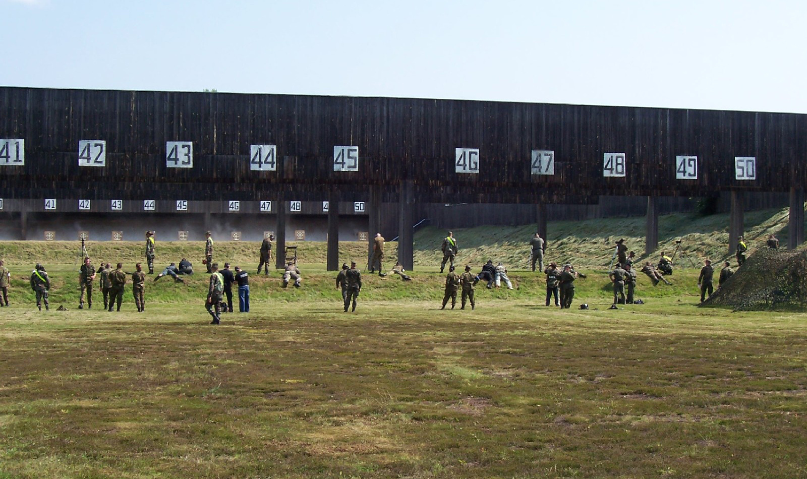 the team competition at Monte-Kali-Shooting